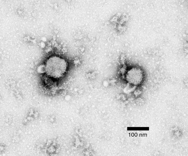 Methylamine tungstate negative-stain electron micrograph of arenavirus isolated from mouse spleen homogenate cultures that tested positive by immunofluorescence assay for lymphocytic choriomeningitis virus infection. Viral envelope spikes and projections are visible, and virion inclusions show a sandy appearance, indicating Arenaviridae.